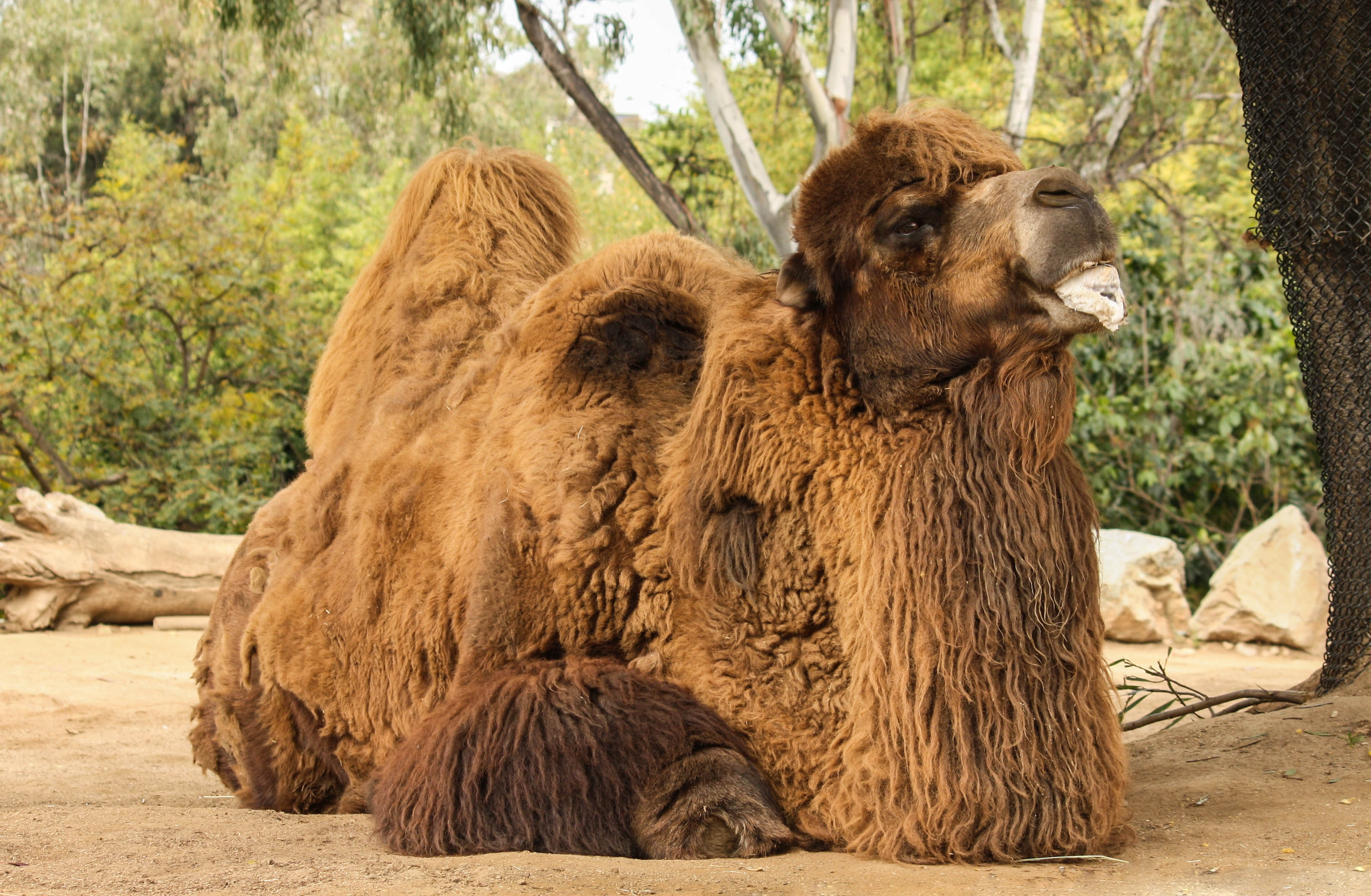 Bactrian camel (Camelus bactrianus) in San Diego Zoo, California